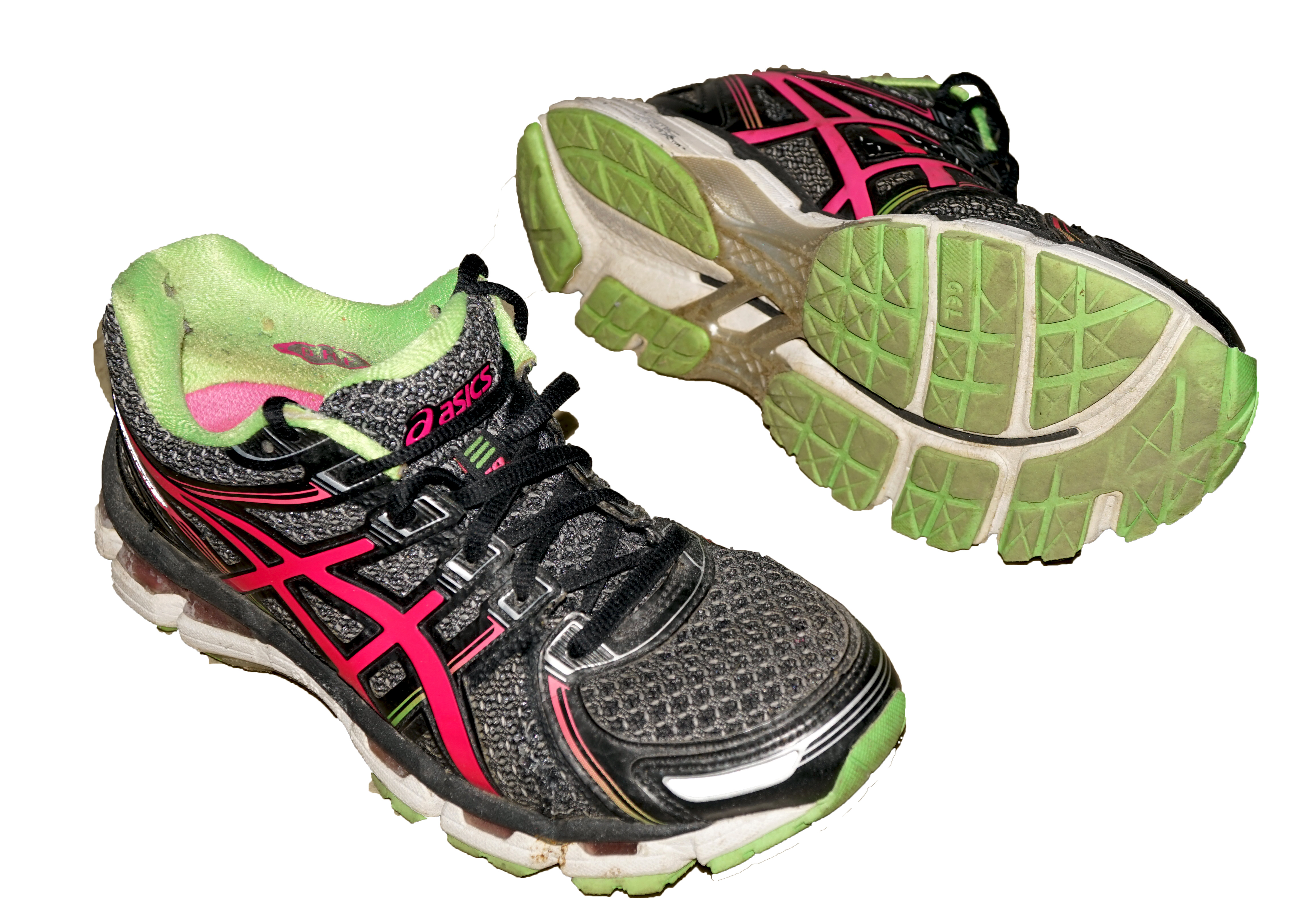 The running shoes ASICS GEL-Kayano 19 (size 38). Over than 1000 kilometers has been run with these shoes.This photograph was taken with a Sony ILCE-5000